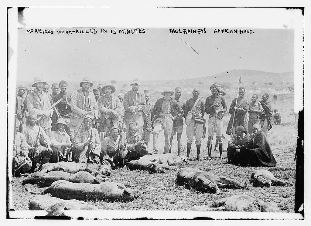 Mornings work - killed [lions?] in 15 min, - Paul J. Rainey's 1912 African hunt. (LOC) Bain News Service,, publisher. Mornings work - killed [lions?] in 15 min, - P. Rainey's African hunt. [between ca. 1910 and ca. 1915] 1 negative : glass ; 5 x 7 in. or smaller. Notes: Title from unverified data provided by the Bain News Service on the negatives or caption cards. Forms part of: George Grantham Bain Collection (Library of Congress). Format: Glass negatives. Repository: Library of Congress, Prints and Photographs Division, Washington, D.C. 20540 USA, General information about the Bain Collection is available at Persistent URL: Call Number: LC-B2- 2548-2